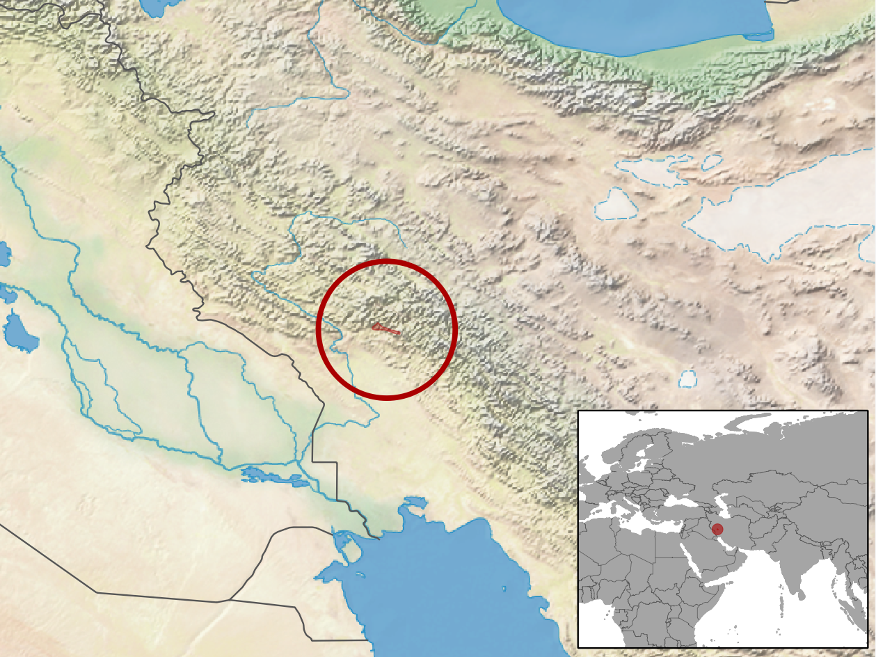 Geographic distribution of Neurergus kaiseri